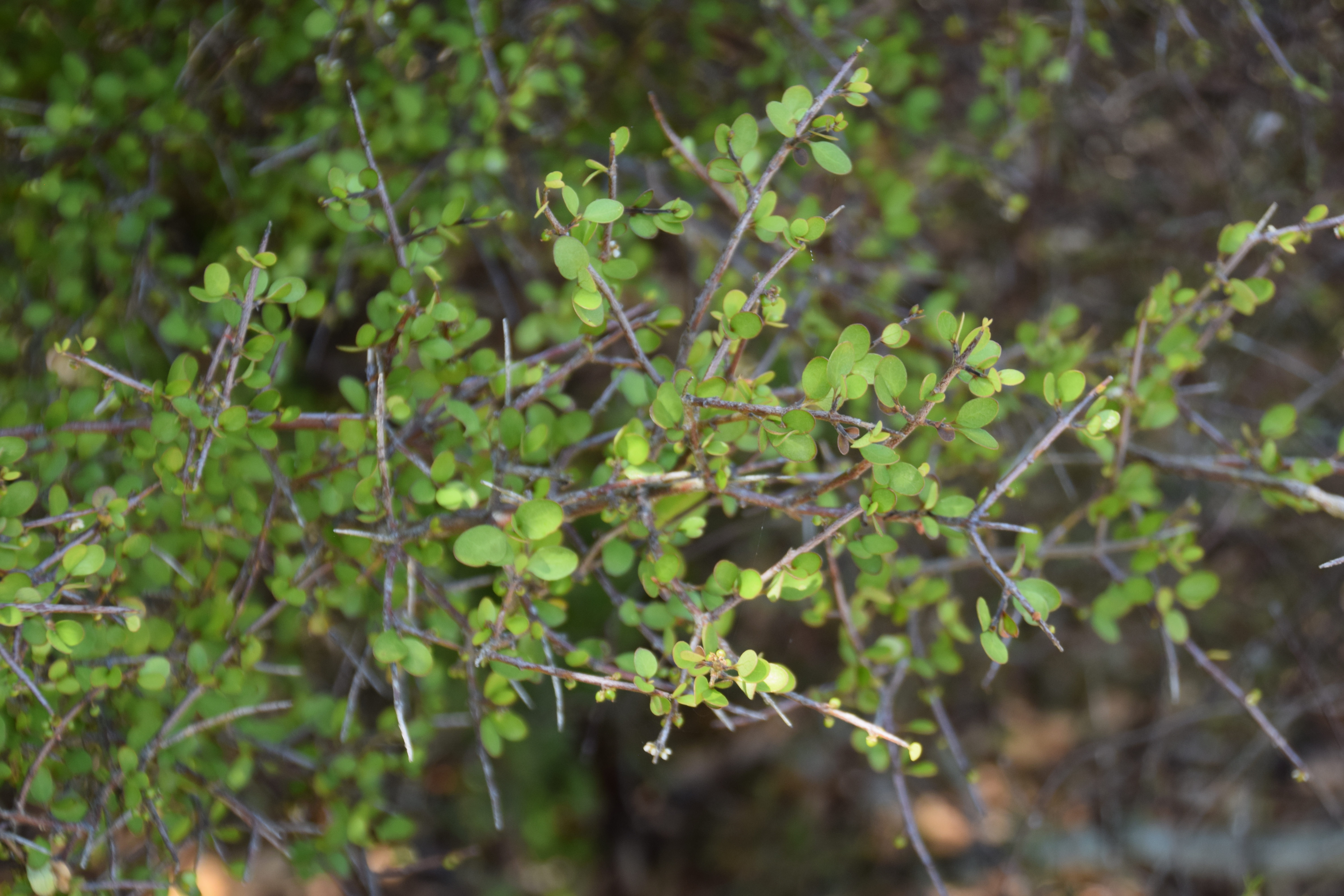 Coprosma intertexta in Dunedin Botanic Garden, Dunedin, New Zealand